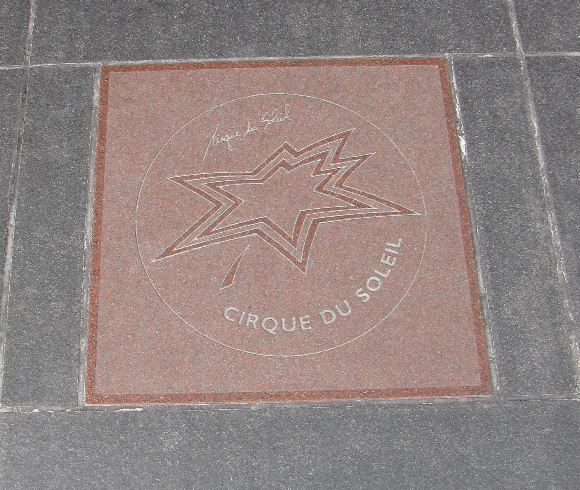 The star on Canada's Walk of Fame for circue troupe Cirque du Soleil